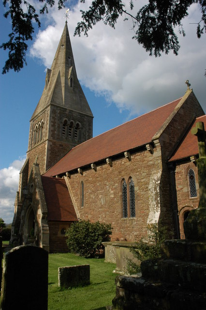 Nave and steeple of All Saints' parish church, Coddington, Herefordshire, seen from the southeast